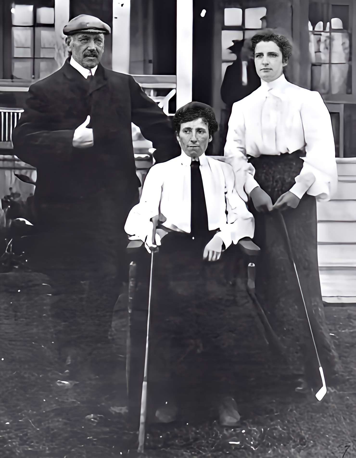 Three people, a man standing in a coat and cap, a woman seated in a white blouse and necktie, and a woman standing; both woman are holding golf clubs. George S. Lyons, Mabel Thomson, and Florence Harvey